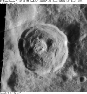 LO-IV-165H